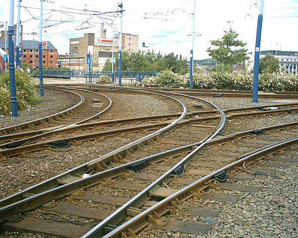 Sheffield Supetram on Sheffield's Park Square.